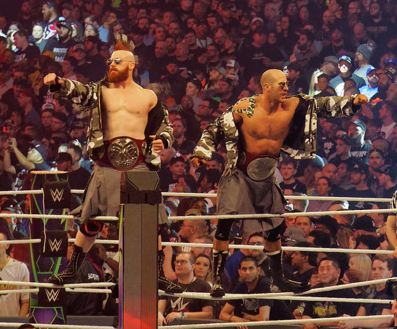 NOLA 2018 - WWE Wrestlemania 34 - Braun Strowman & Nicholas Vs Cesaro & Sheamus Braun Strowman & Nicholas def. (pin) (c) (in 03:55) For : WWE Raw Tag Team Championship (title change) Rating : * ( Deux semaines a Nola pour la ville et pour WWE Wrestlemania XXXIV Two weeks Nola for the city and for WWE Wrestlemania XXXIV )